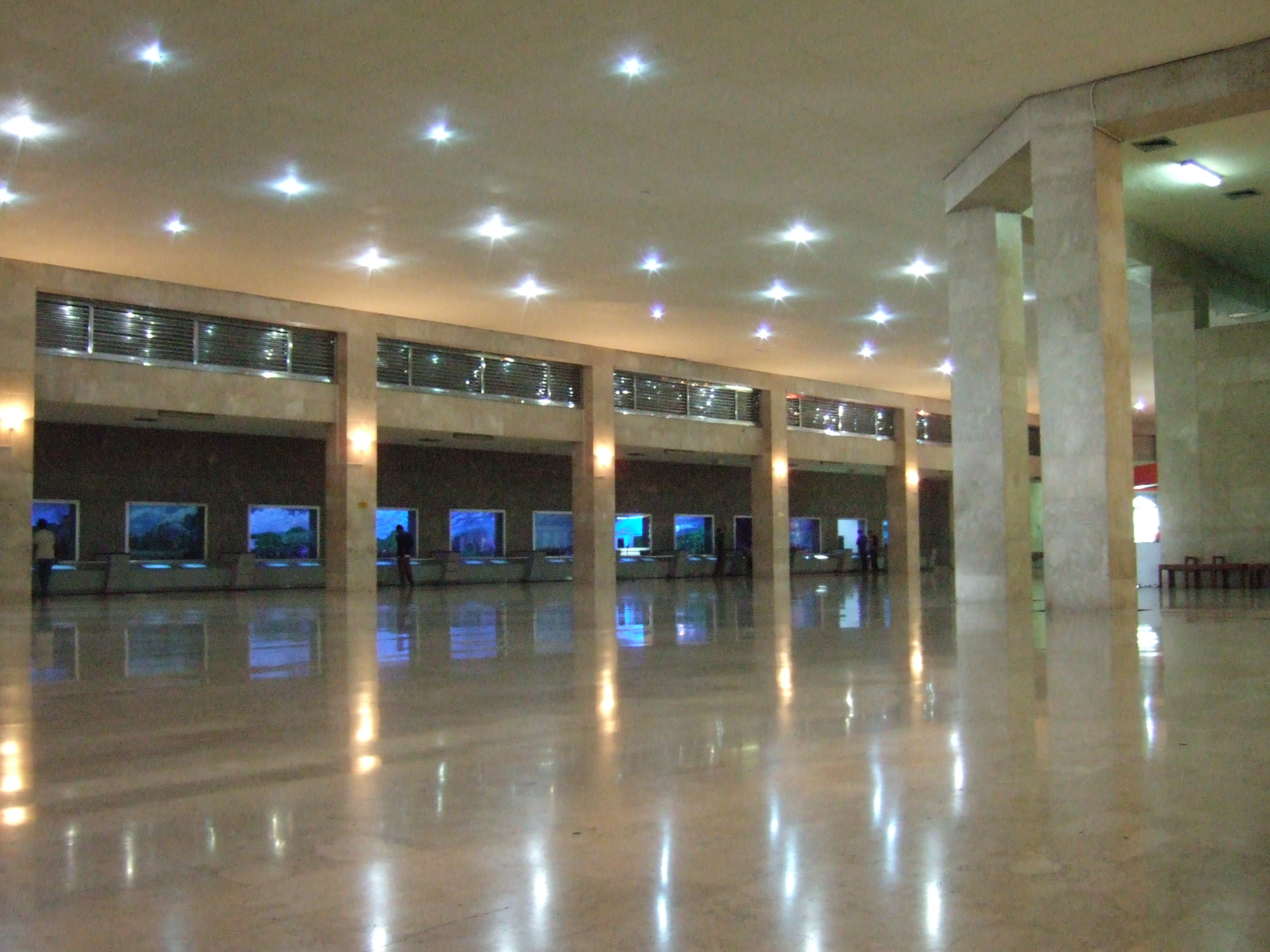 Museum of Indonesian history, The Monumen Nasional (Tugu Monas), Jakarta, Indonesia